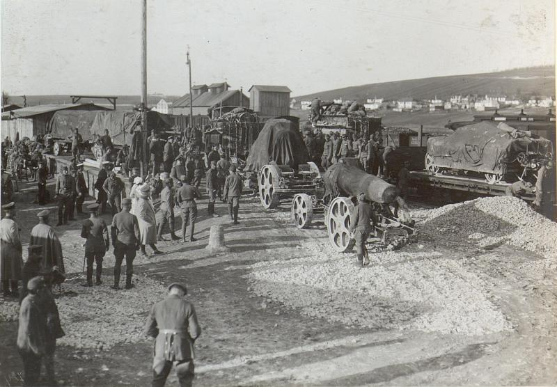 Mörser auf einer Verladerampe in Brzezany